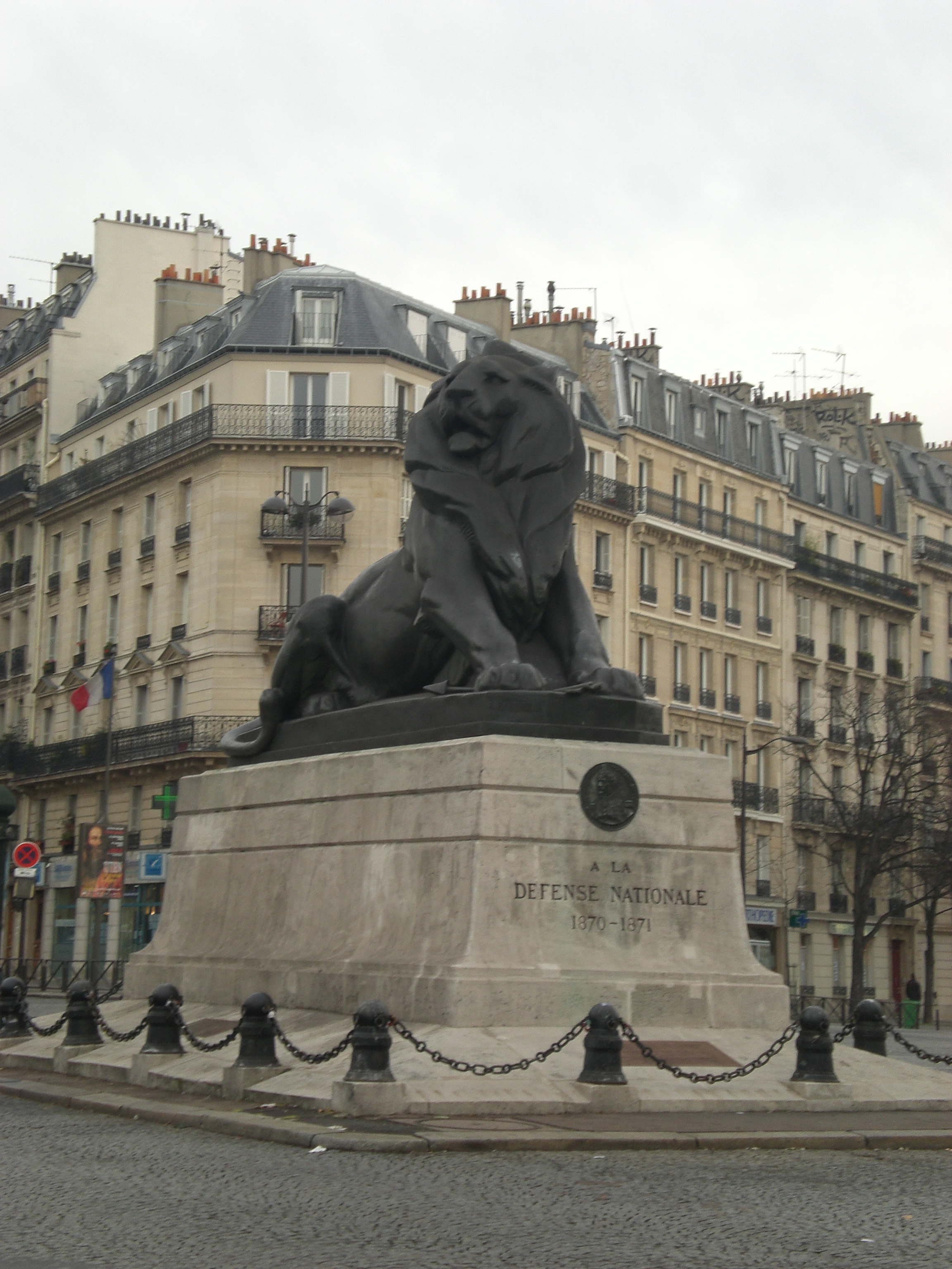 Belfort Lion by Auguste Bartholdi, hammered copper. Place Denfert-Rochereau, 14th arrondissement of Paris.